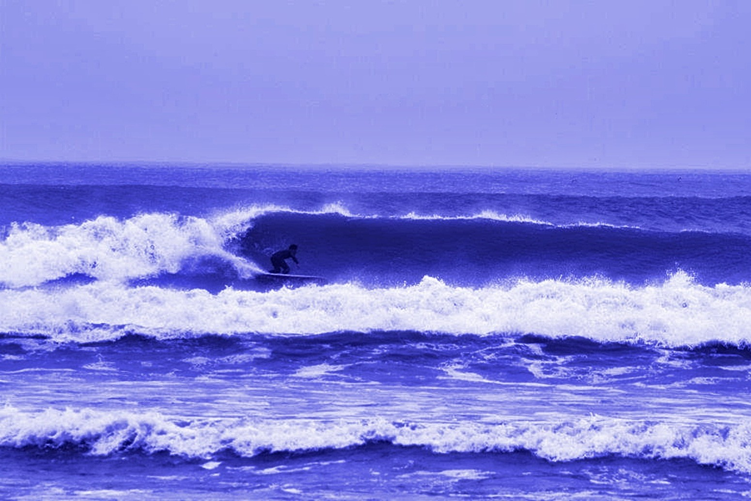 Surfista en Huanchaco